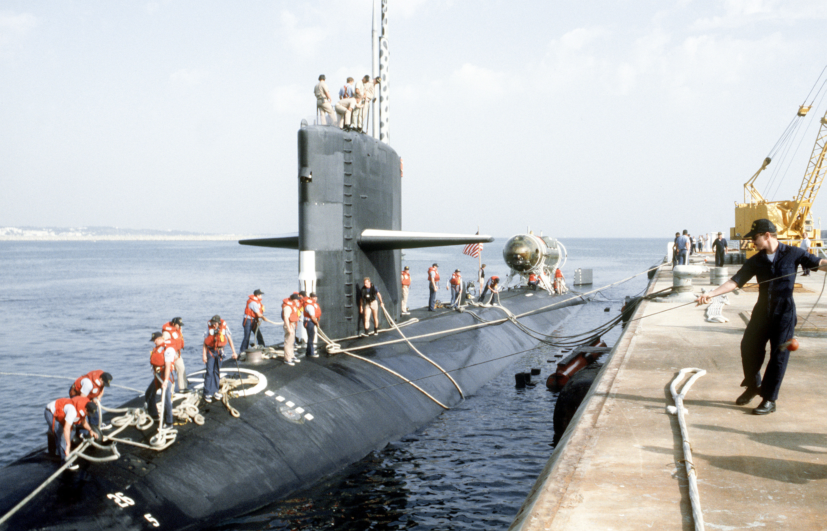 Crewmen work to secure mooring lines on the deck of the nuclear-powered attack submarine USS BILLFISH (SSN-676). The BILLFISH is carrying the deep submergence rescue vehicle Avalon (DSRV-2). Both are scheduled to participate in the NATO deep sea rescue exercise Sorbet Royal '92.